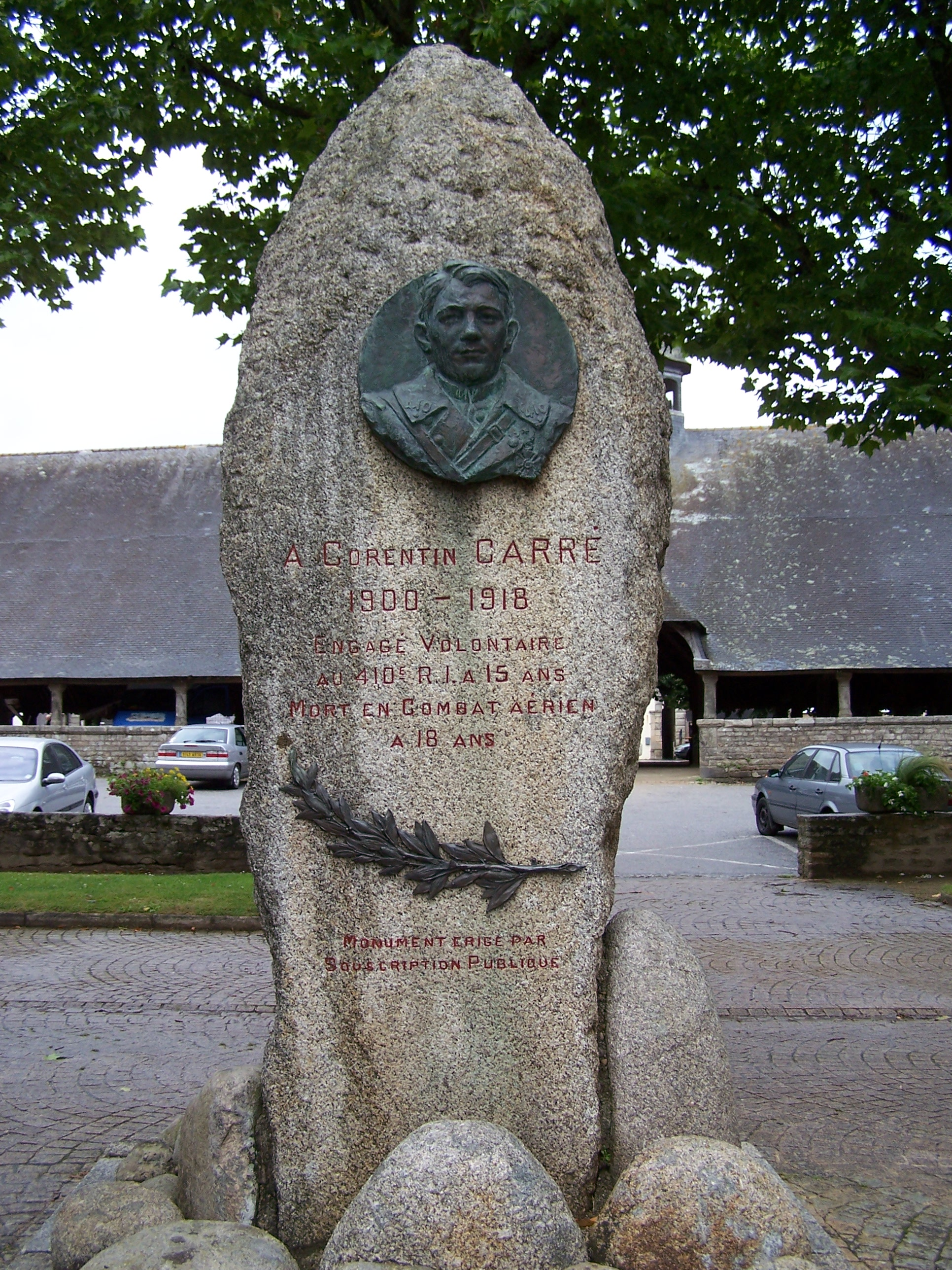 Monument dedicated to Corentin Carré at Le Faouët which was the youngest french soldier (engaged at 15 yrs) killed at 19 yrs during the first World War in 1918.